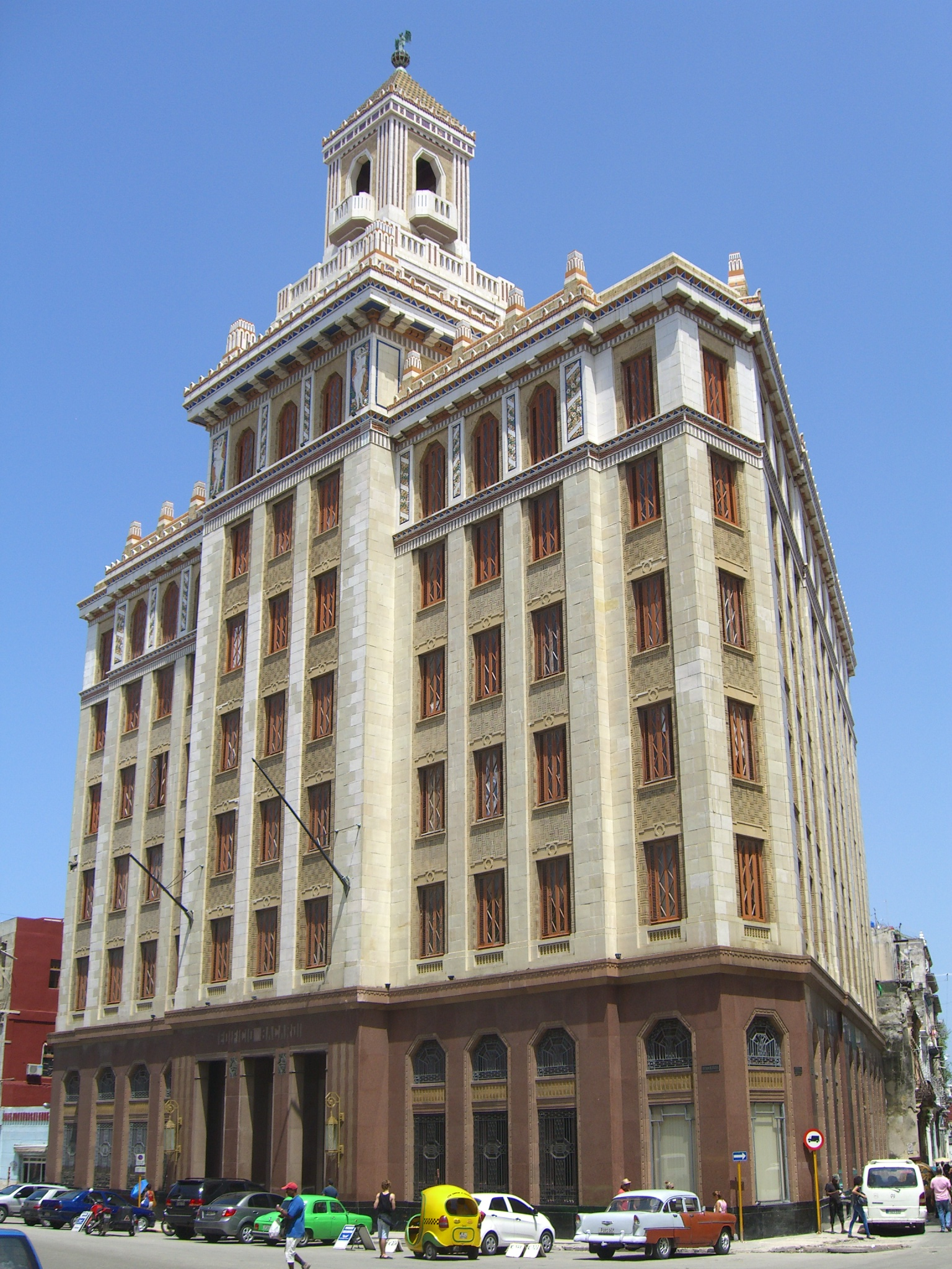 Bacardí Building, Havana, Cuba